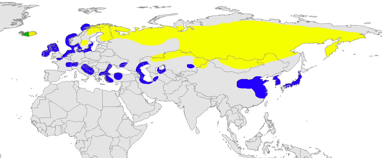 Map of breeding (yellow) and wintering areas (blue) of Cygnus cygnus. Some Icelandic ind. winter in the breeding area (green).